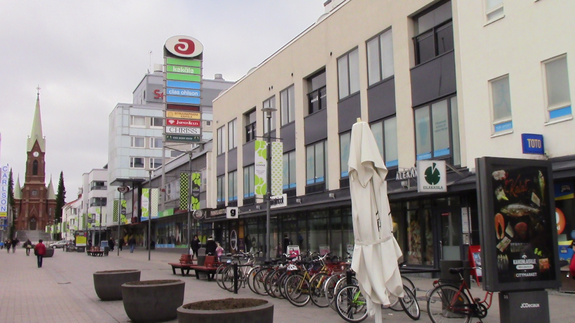 Akseli shopping center as seen from Hallituskatu street in Mikkeli.